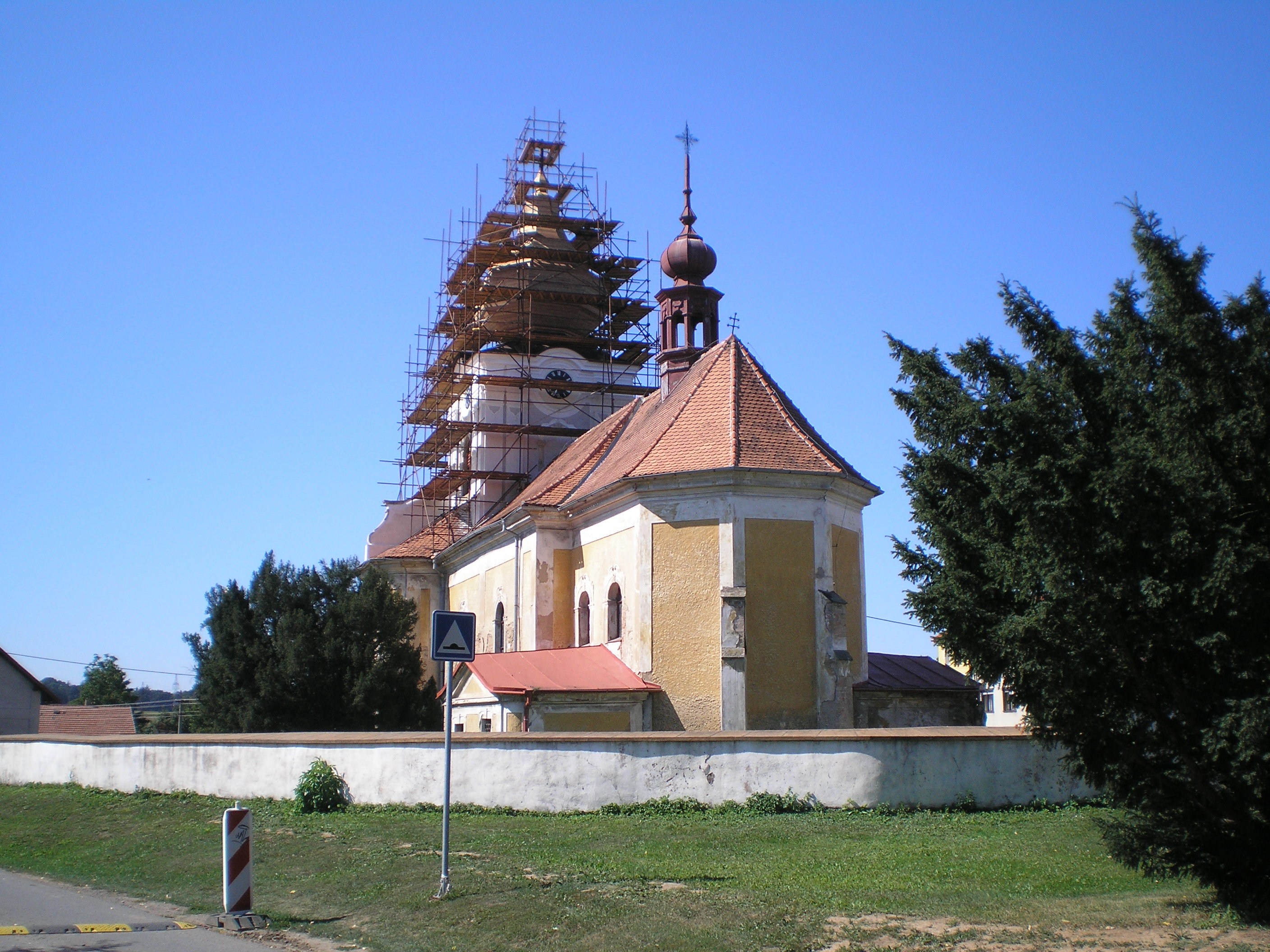 Svinčany, church from the east